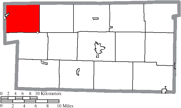 Map of the municipal and township boundaries of Holmes County, Ohio, United States, as of the 2000 census, with the location of Washington Township highlighted. Township borders are shown only in unincorporated areas in order to differentiate incorporated and unincorporated areas more clearly.